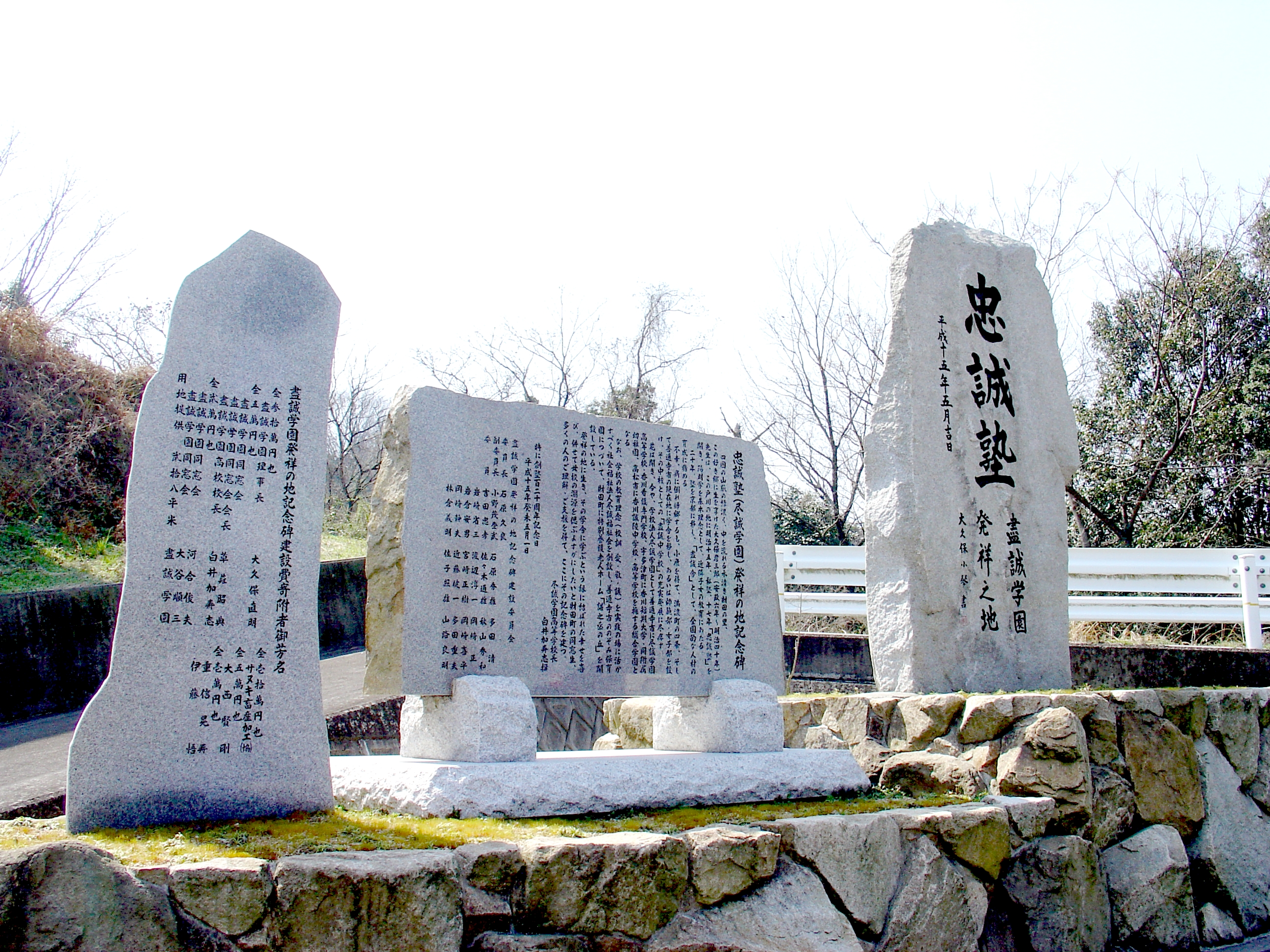 The monument of Chuseijuku's birthplace (Jinsei Gakuen) in Mitoyo, Kagawa.